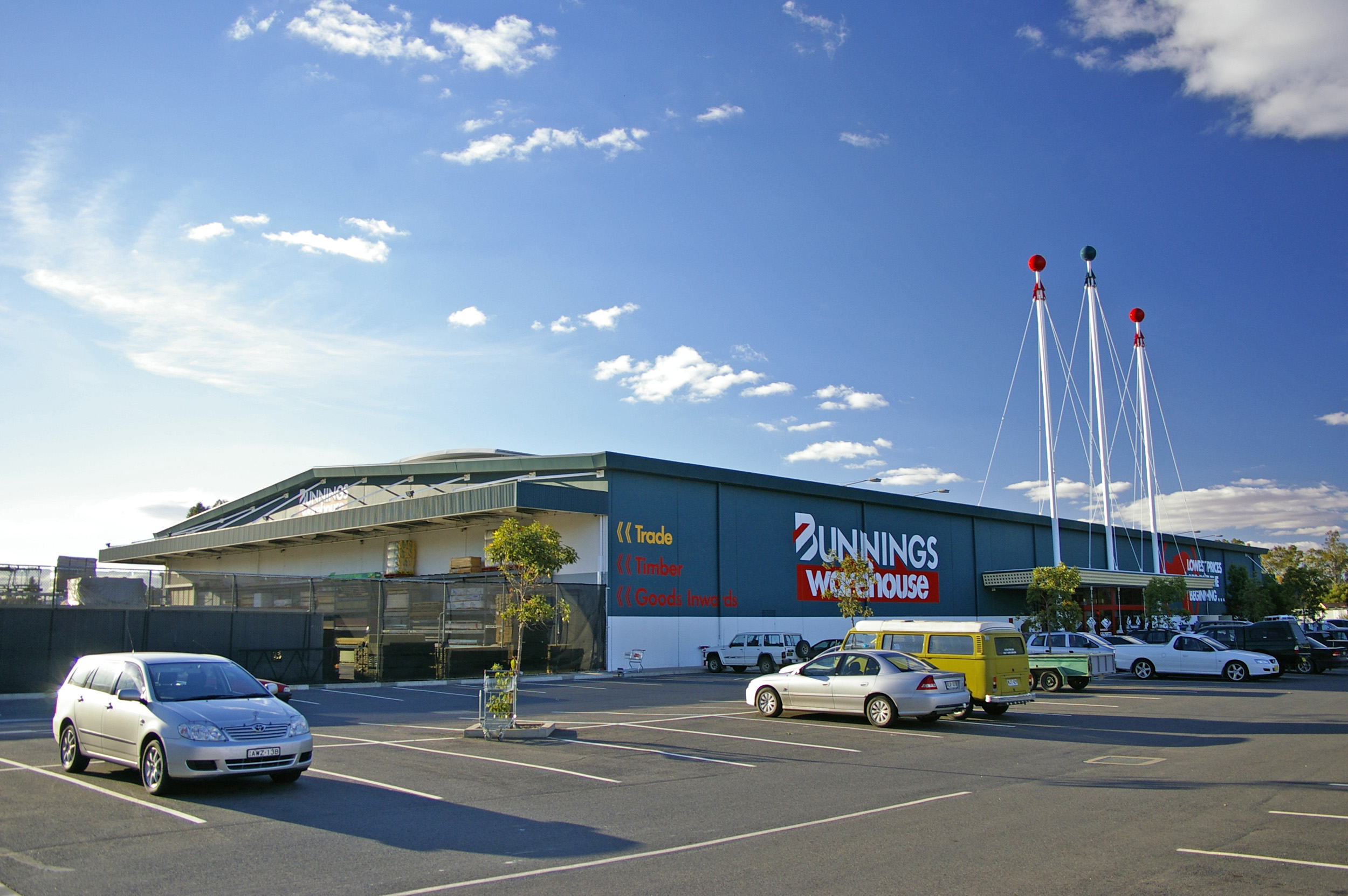 Bunnings Warehouse Home Base Wagga Wagga. Formerly Hardware House.